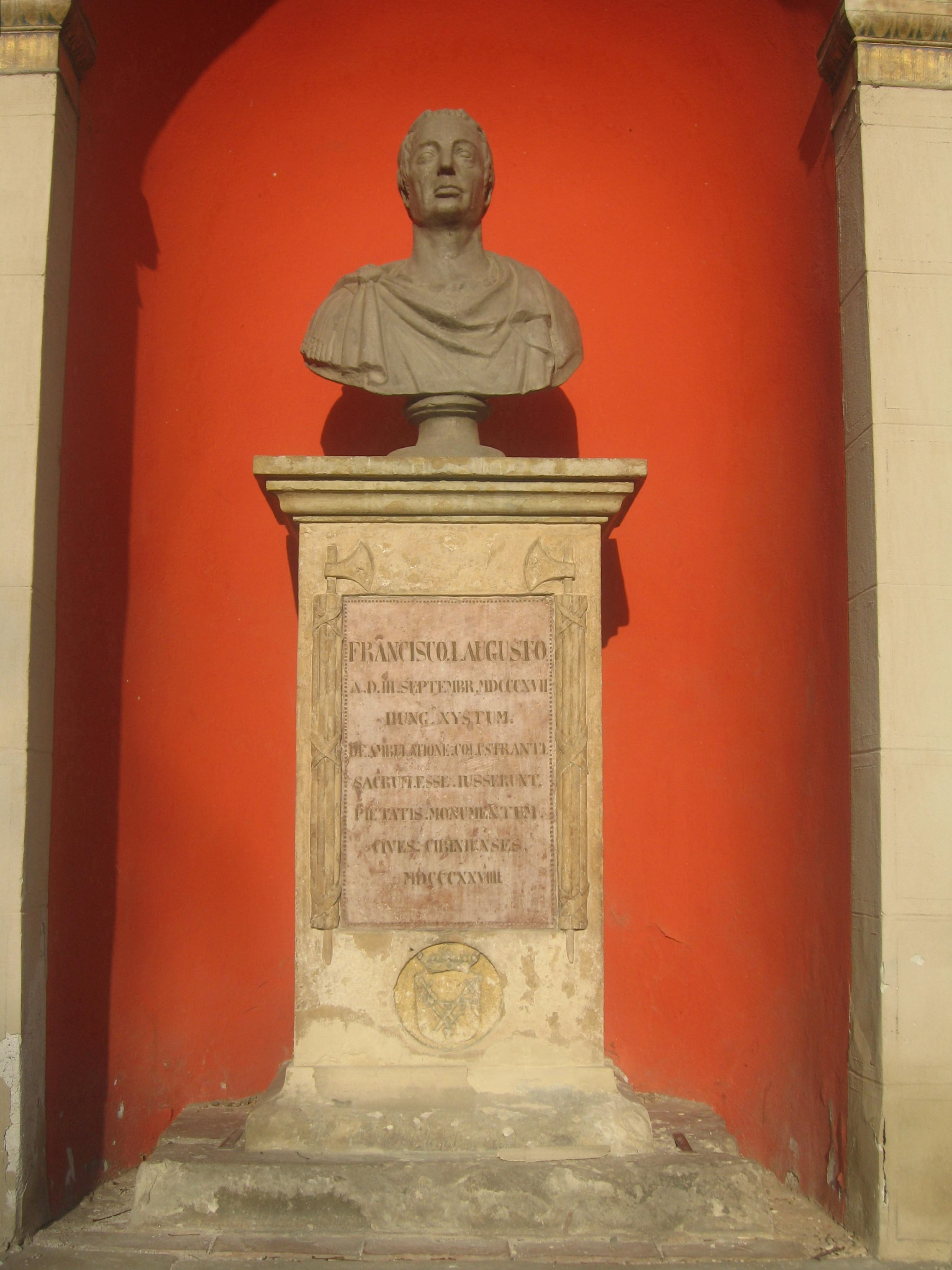 Emperor Francisc's statue in Sibiu